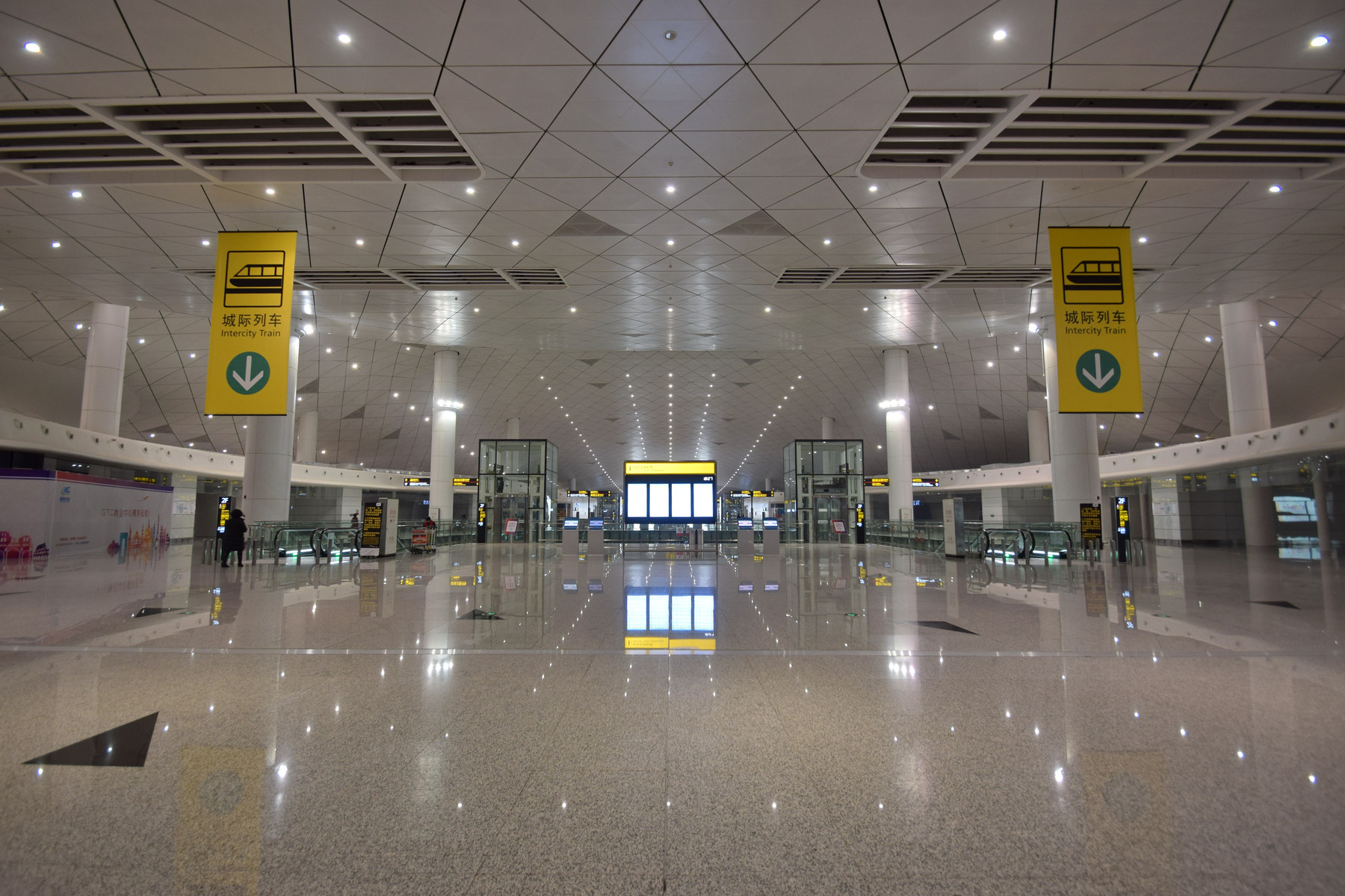 Ground Traffic Center (GTC), Zhengzhou Xinzheng International Airport